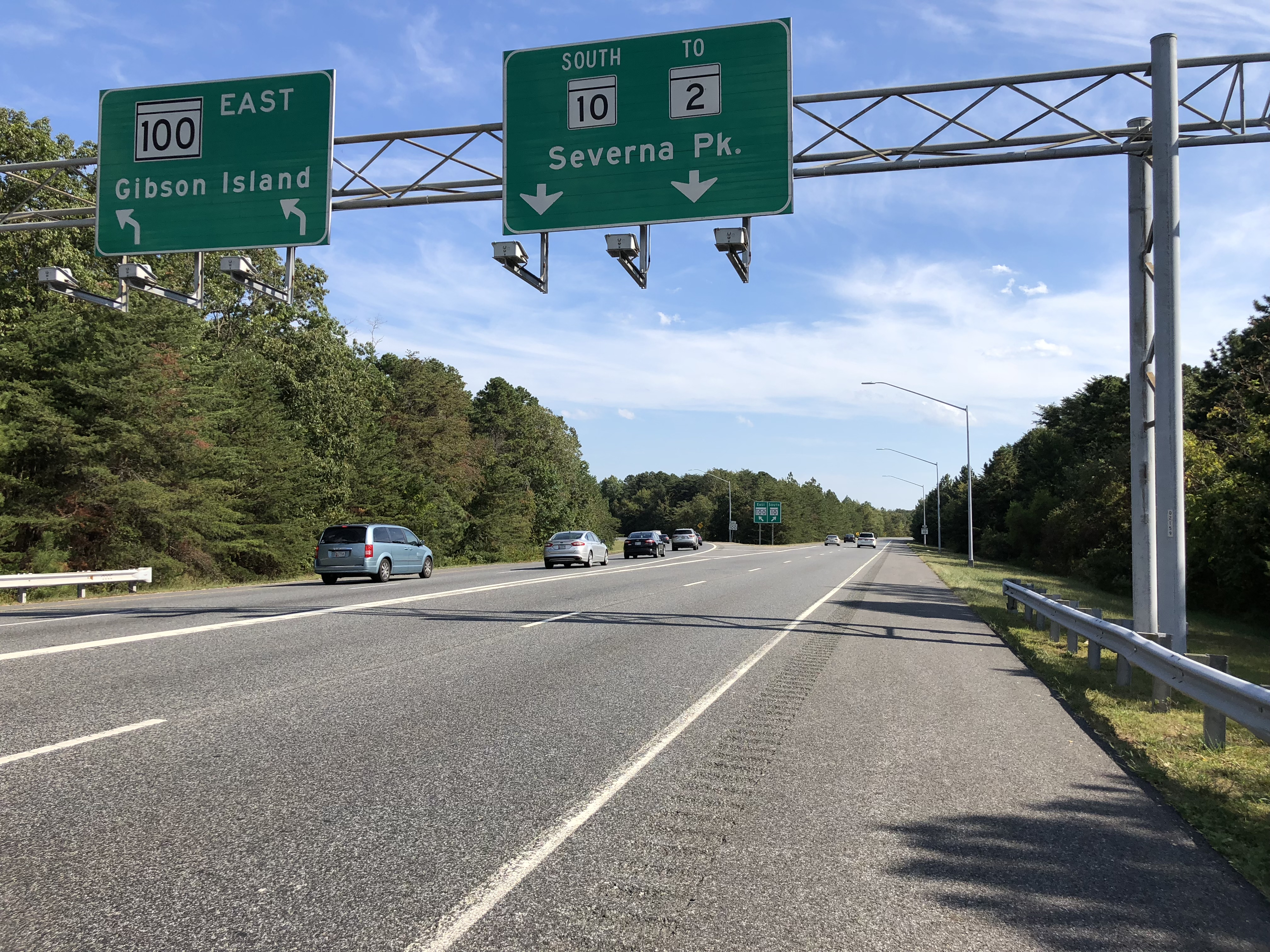 View south along Maryland State Route 10 and east along Maryland State Route 100 (Arundel Expressway/Paul T. Pitcher Memorial Highway) at their divergence point in Pasadena, Anne Arundel County, Maryland